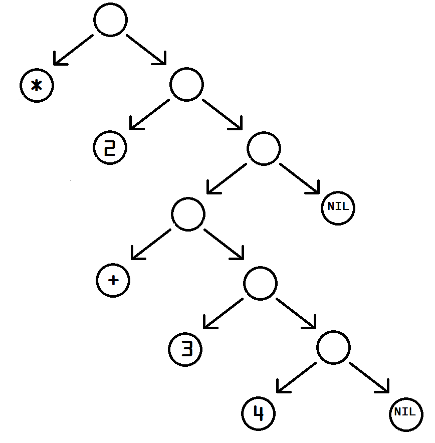 Corrected tree structure diagram for the S-expression (* 2 (+ 3 4))